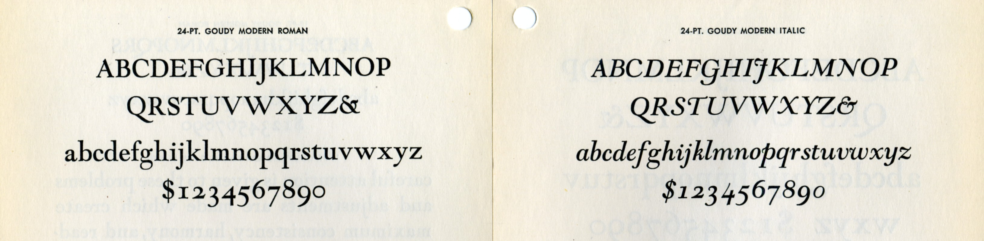 Sample image of Goudy Modern in metal type.